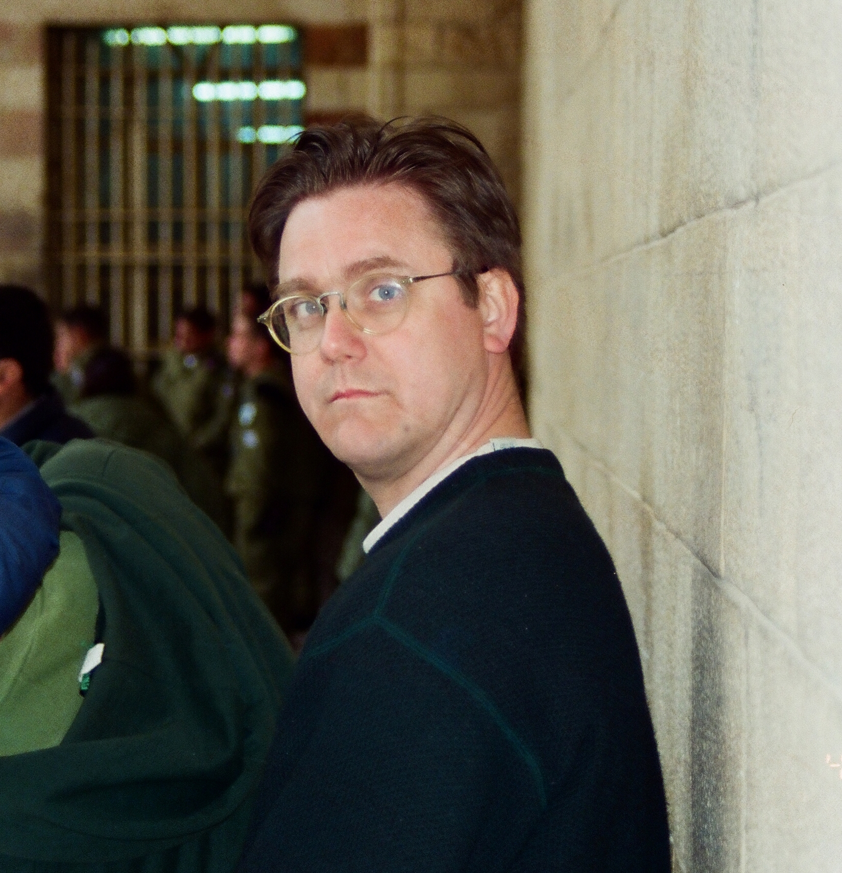 TV producer-director Per-Eric Hawthorne on location in Israel while filming the Open Media production for Channel 4: The Spy Machine